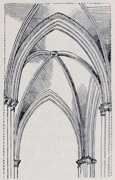 Gothic vault